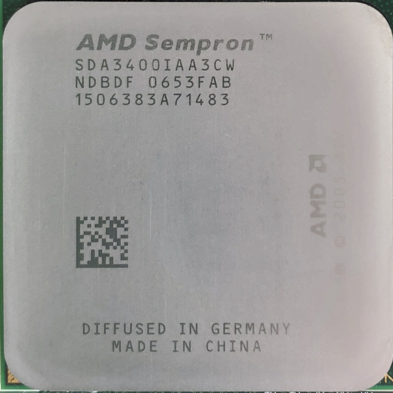 AMD Sempron (Socket AM2)